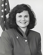 Photo of Enid Greene Mickelsen, formerly Enid Greene Waldholtz, a politician from the state of Utah who served one term in the United States House of Representatives.